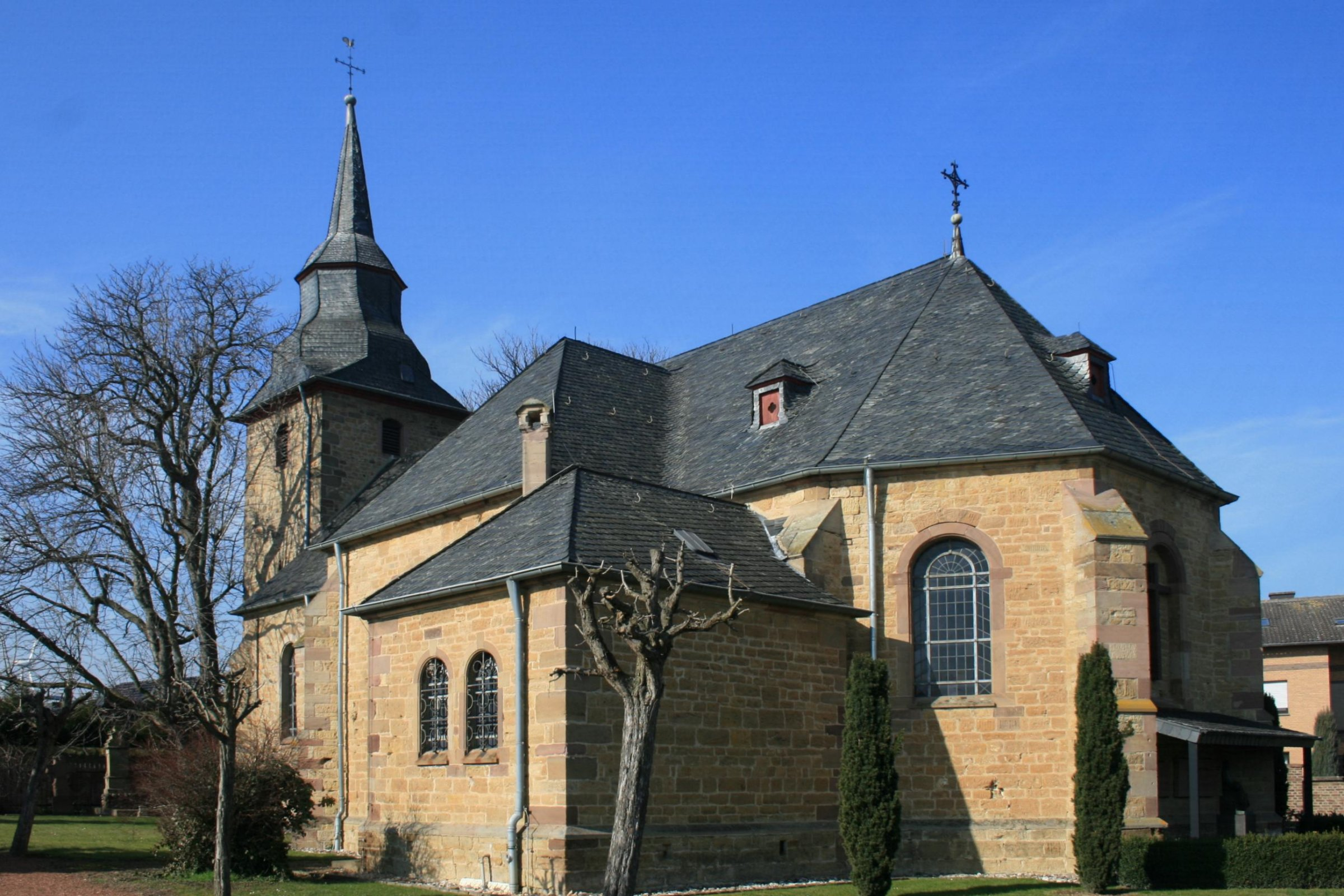 Cultural heritage monument No. Gin-03 in Vettweiß